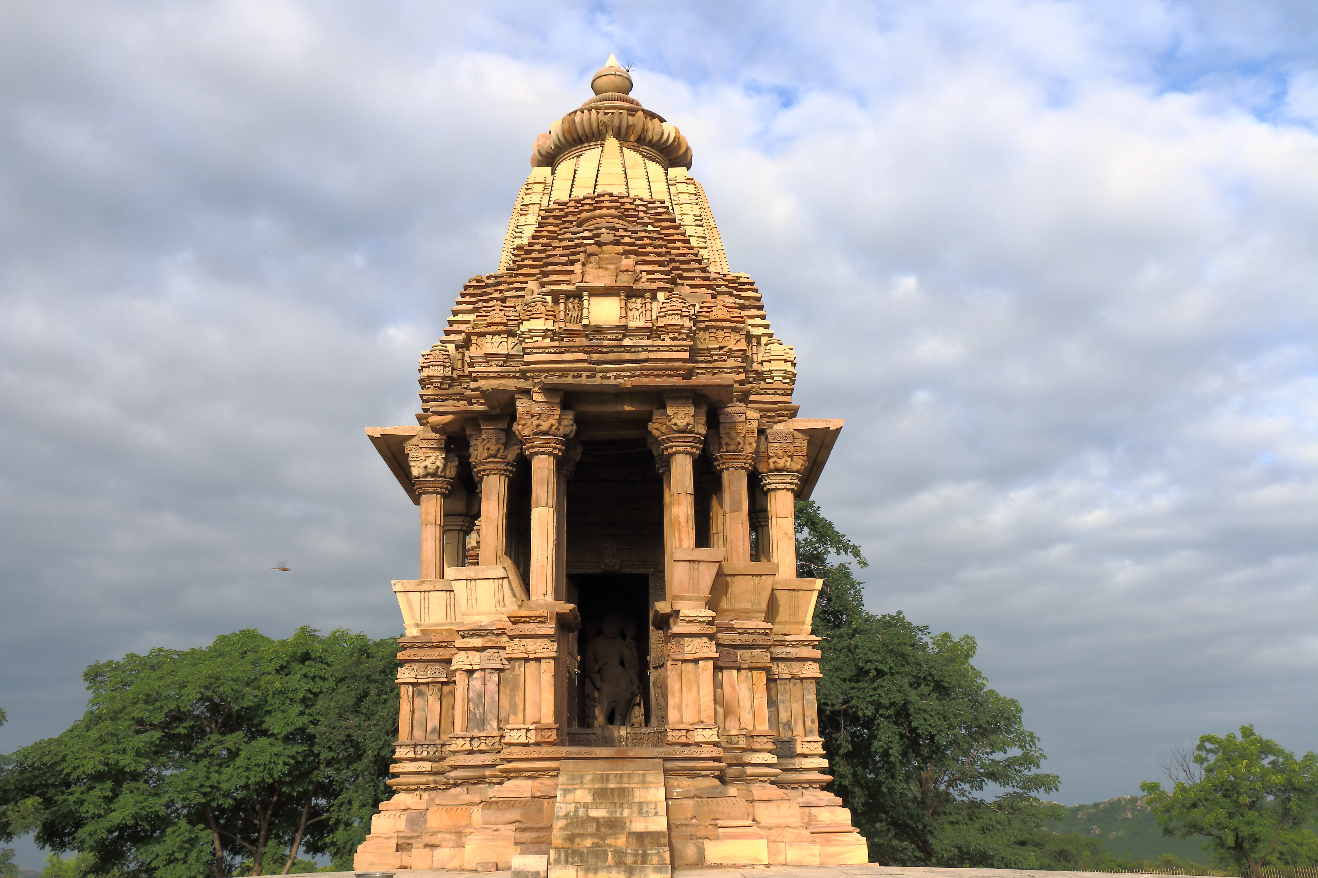 Jatakari or Chaturbhuj Temple